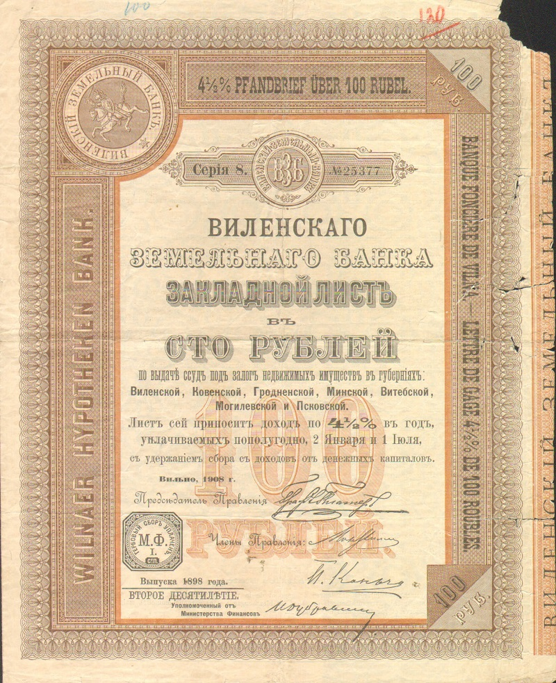 Mortgage note (nominal value 100 rubles, 4.5% annual interest) issued by Vilnius Land Bank